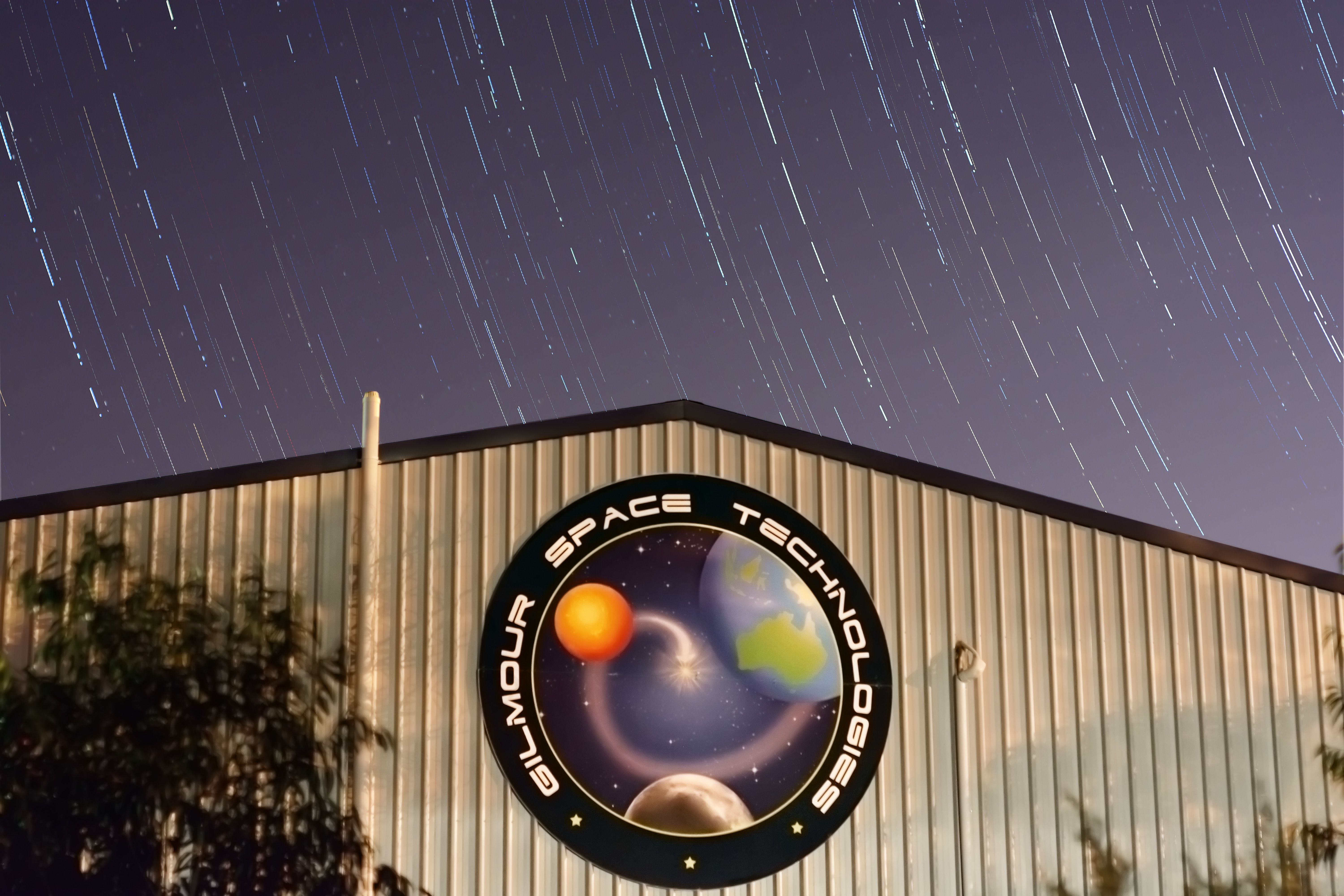 This is the primary engine development and rocket integration center for Gilmour Space Technologies, in Pimpama, Queensland